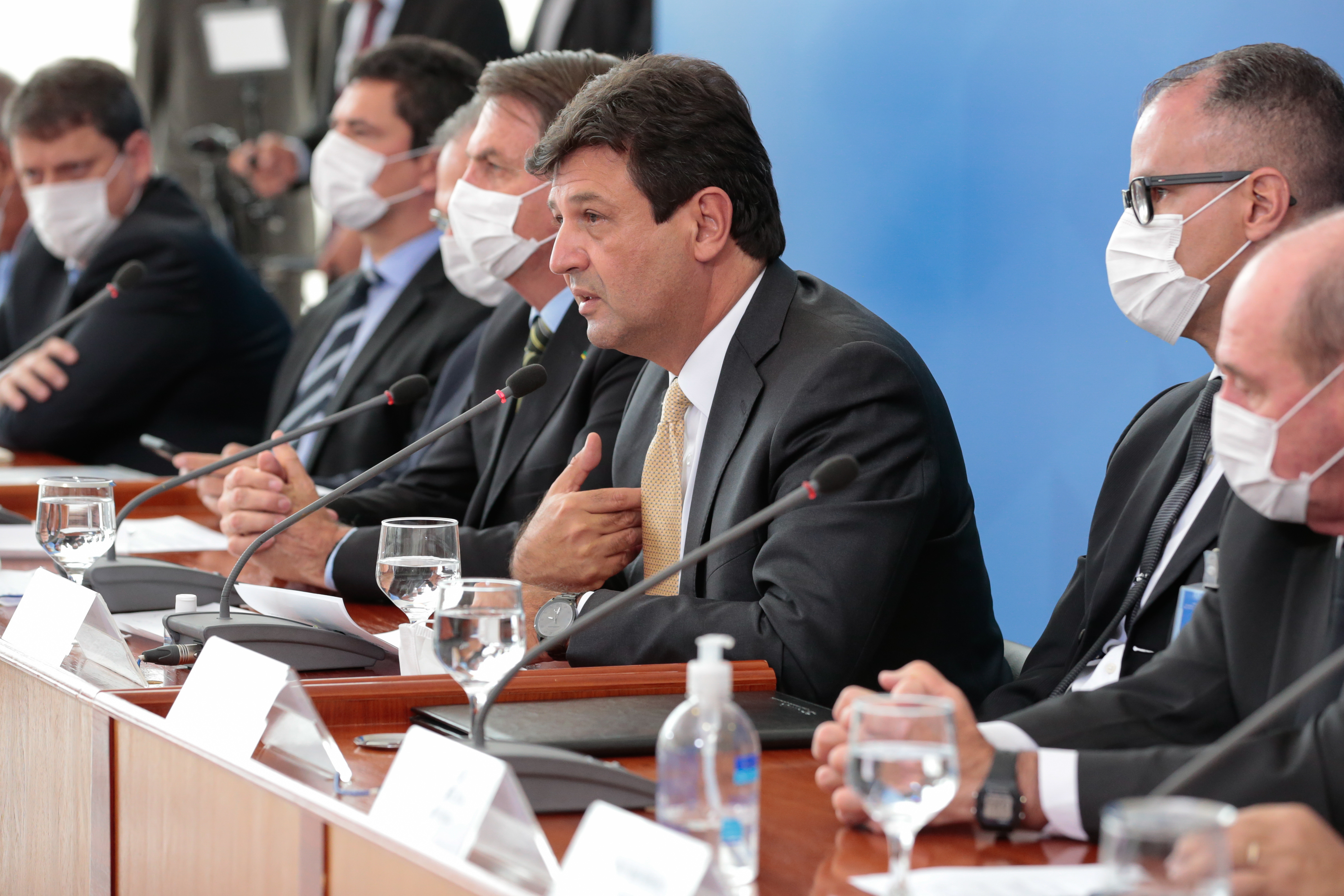 (Brasília - DF, 18/03/2020) Coletiva à Imprensa do Presidente da República, Jair Bolsonaro e Ministros de Estado. Foto: Carolina Antunes/PR